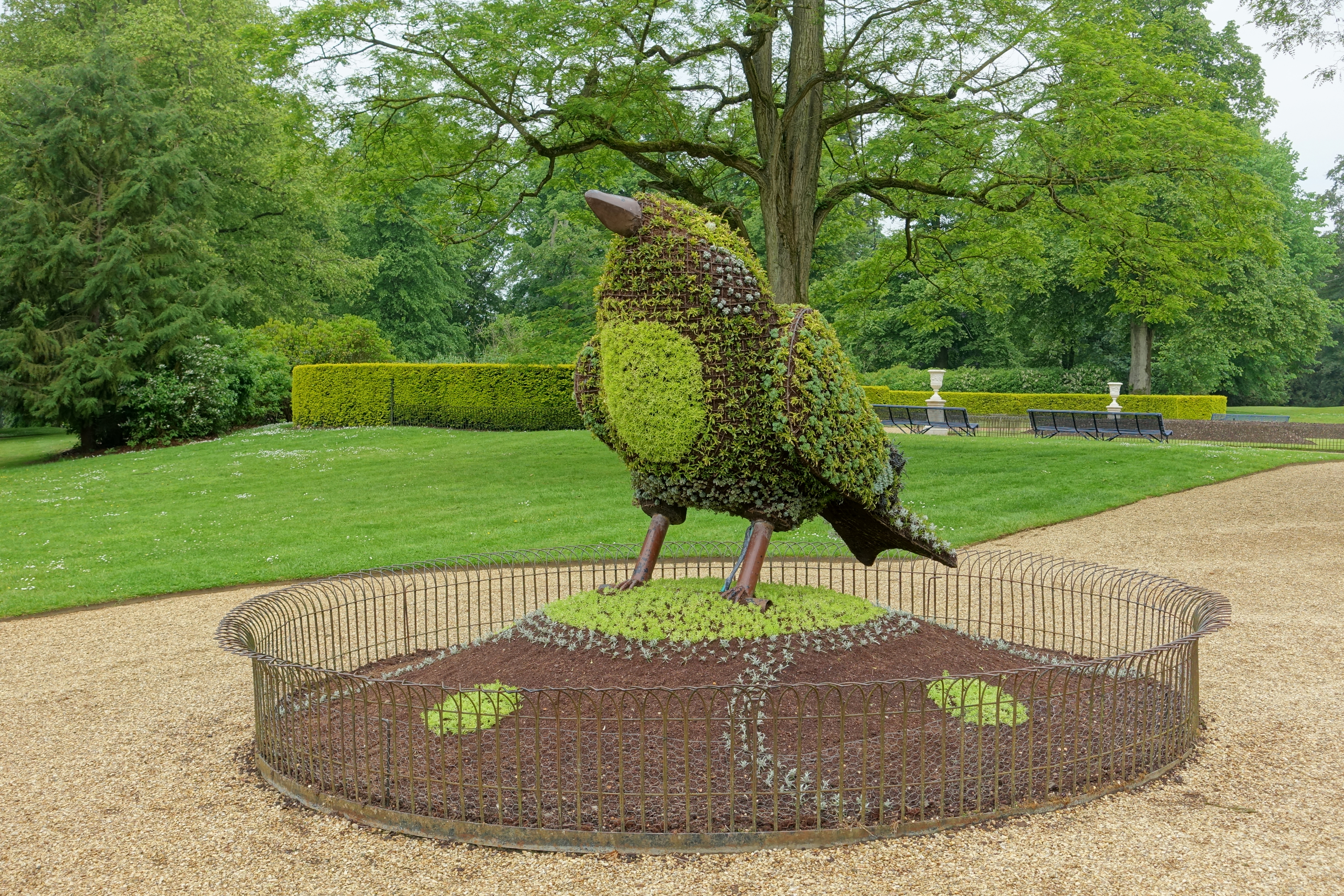 Waddesdon Manor - Buckinghamshire, England.